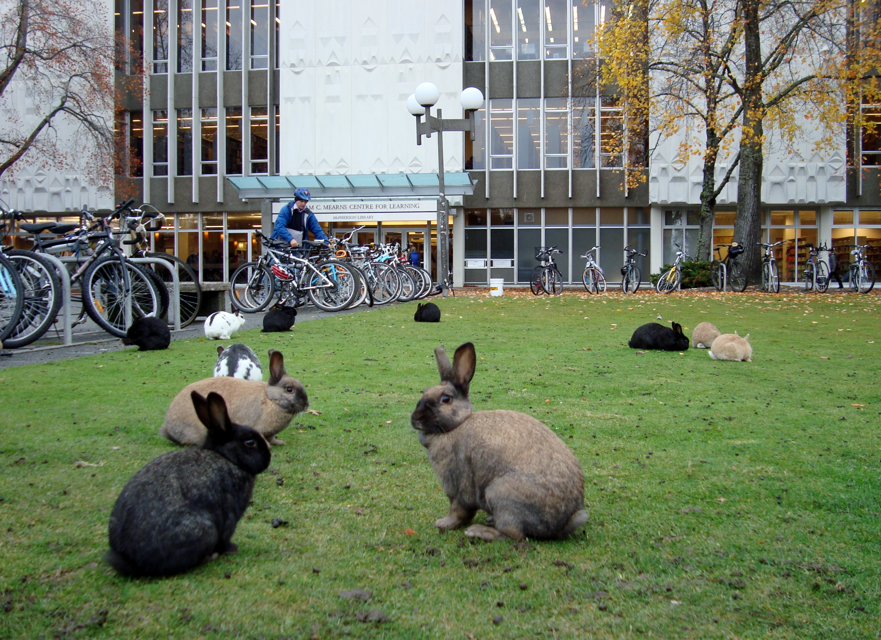 University of Victoria library, bikes, and rabbits.